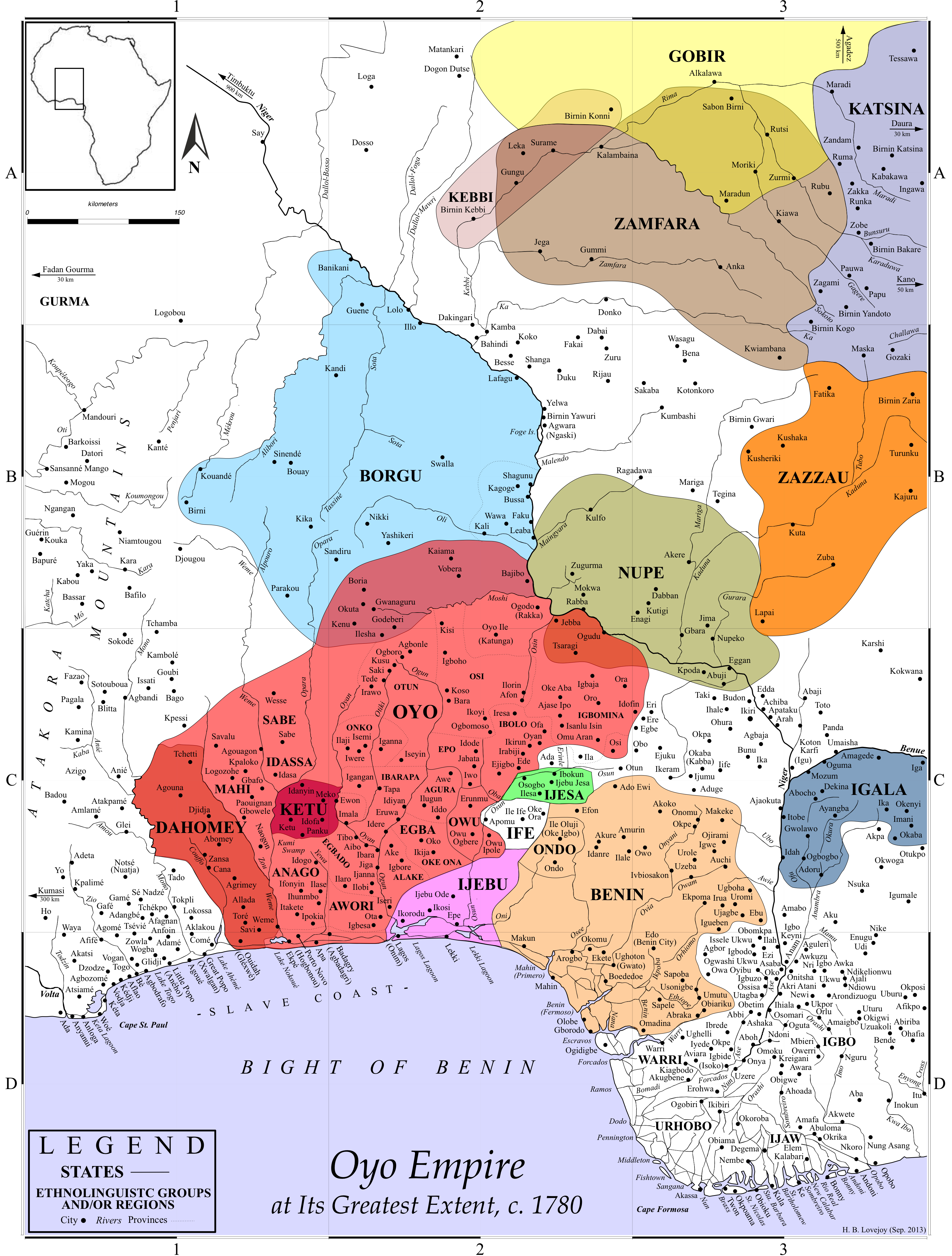 The map shows Pre-colonial Western Nigeria in 1780